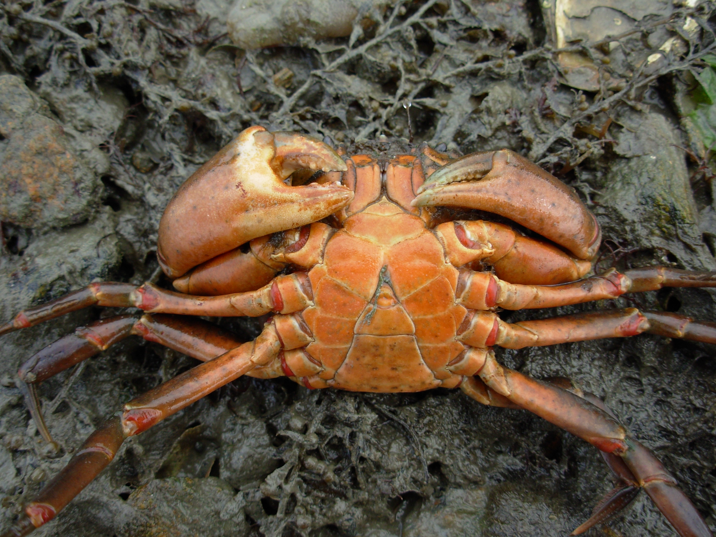 Carcinus maenas, red mâle, ventral side